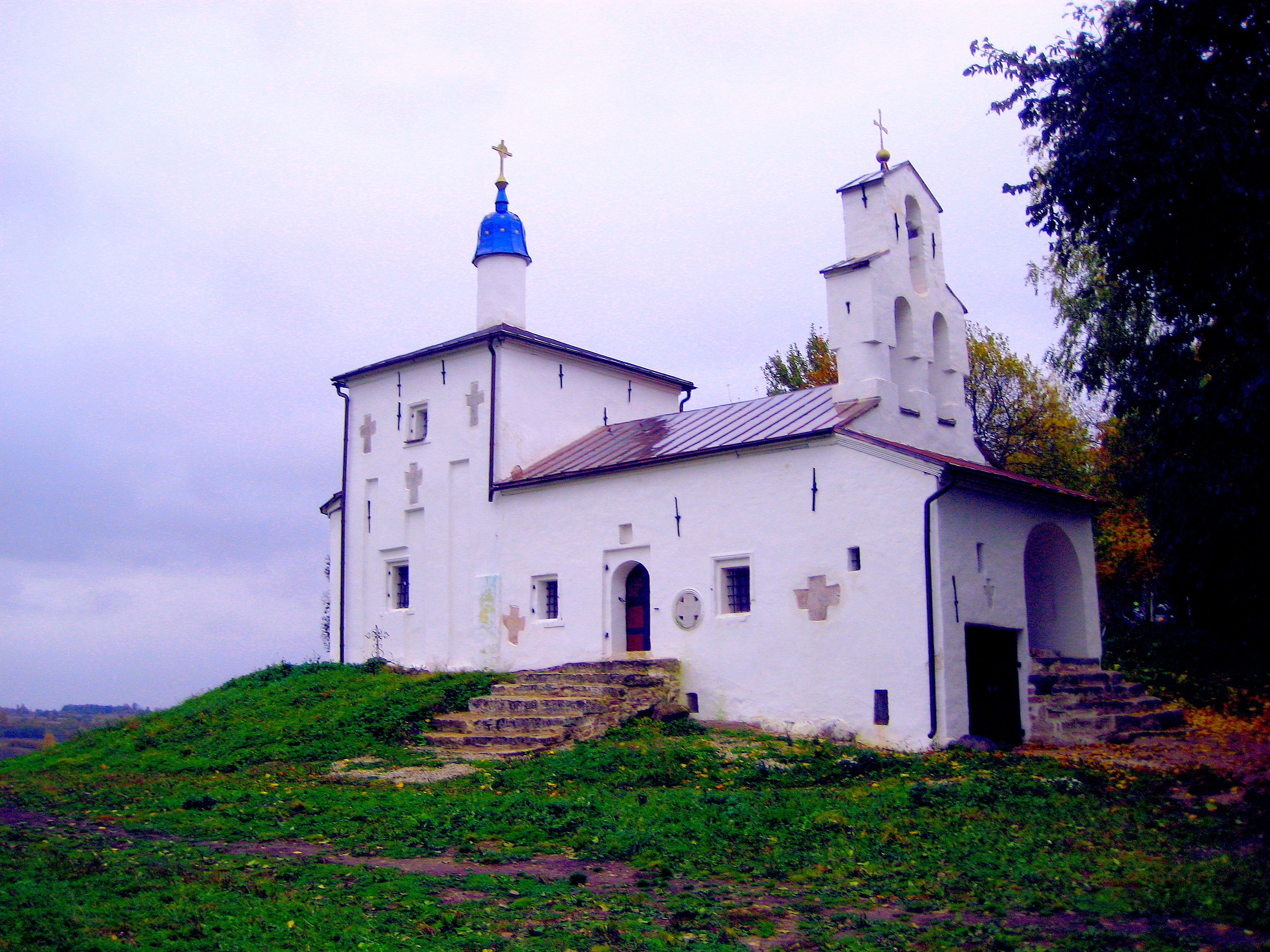 Church of St. Nicholas from Gorodische: Truvorovo fortified settlement, Staryy Izborsk, Pechora district, Pskov region